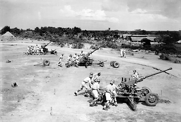 Marines at drill with three 40 mm Bofors guns at the Royal Marine Group Mobile Naval Base Defence Organisation Instructional Wing, Chatham Camp, Colombo, Ceylon - September 1943